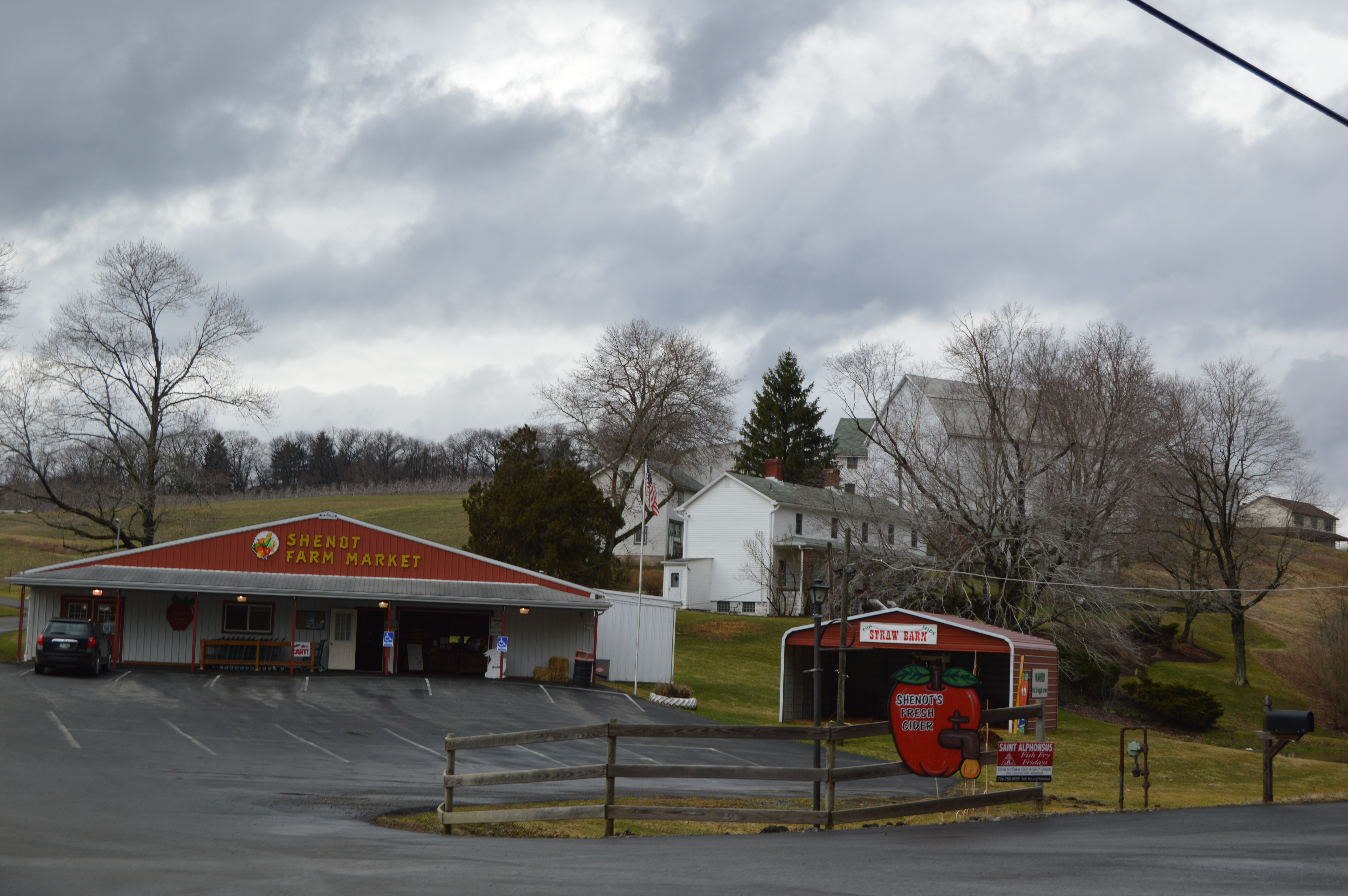 Farm and permanent farmer's market located at 3754 Wexford Run north of Pennsylvania Route 910 in Marshall Township, Allegheny County, Pennsylvania, United States.